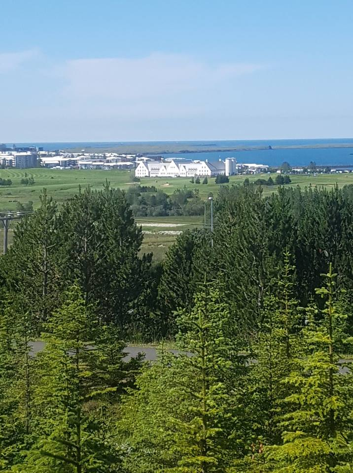 Korpúlfsstaðir